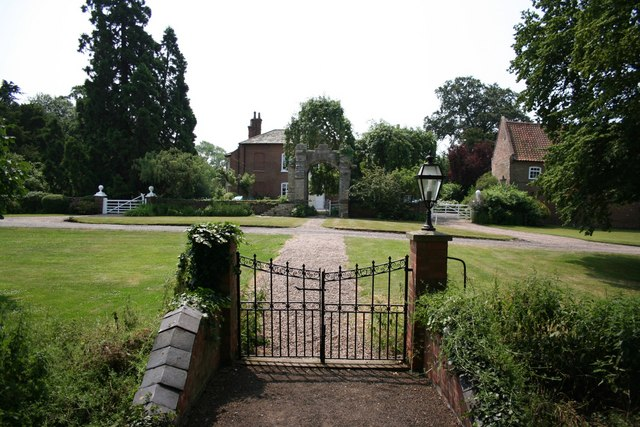 Kettlethorpe Hall. The 14th century gateway and hall from the church